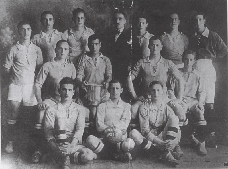 The Apollon Smyrna Greek football team 1922